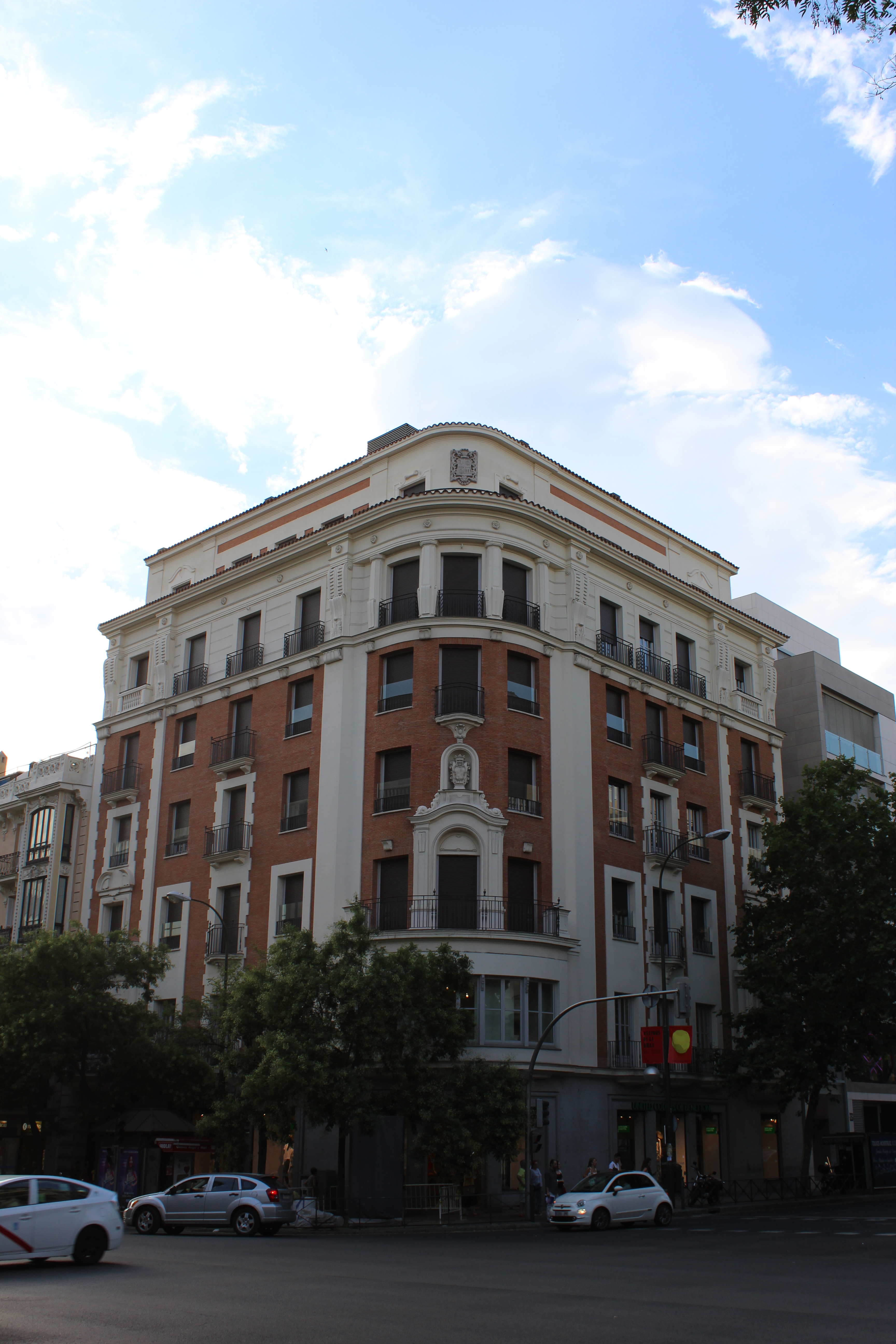 Casa-palacio del marqués de Casa-Argudín, Madrid.